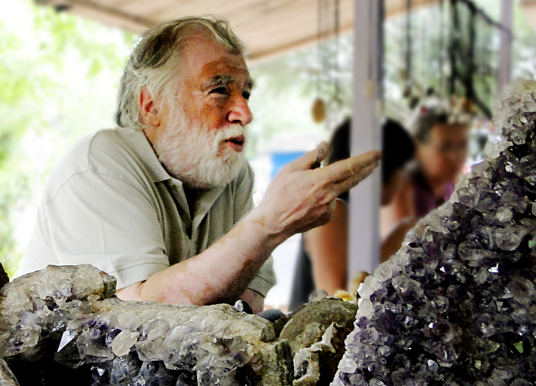 Danilo Antón